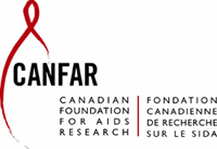 CANFAR's Logo